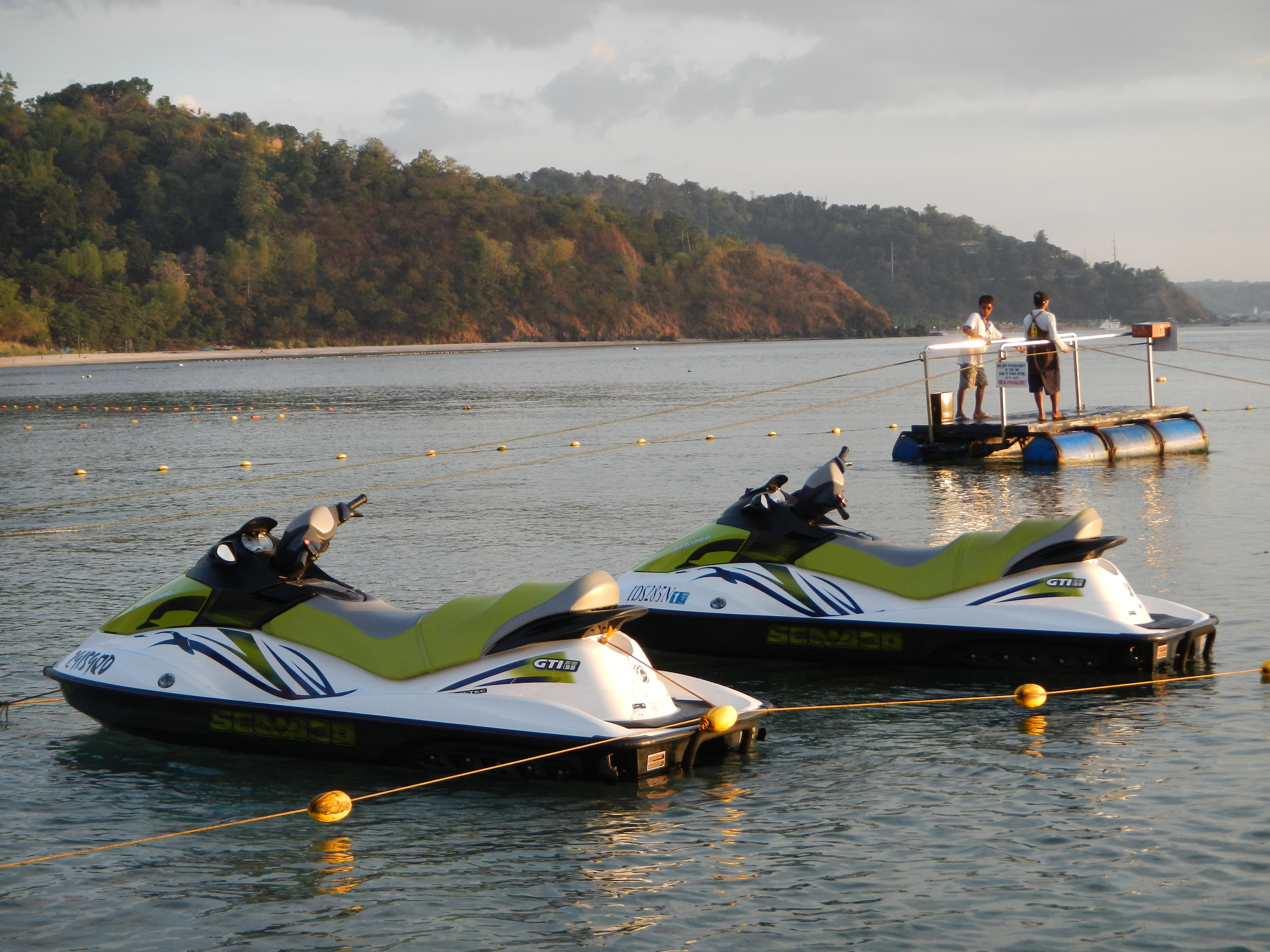 Subic, Zambales[1]Subic is a municipality in the province of Zambales, located along the northern coast of Subic Bay in the Philippines.[2]